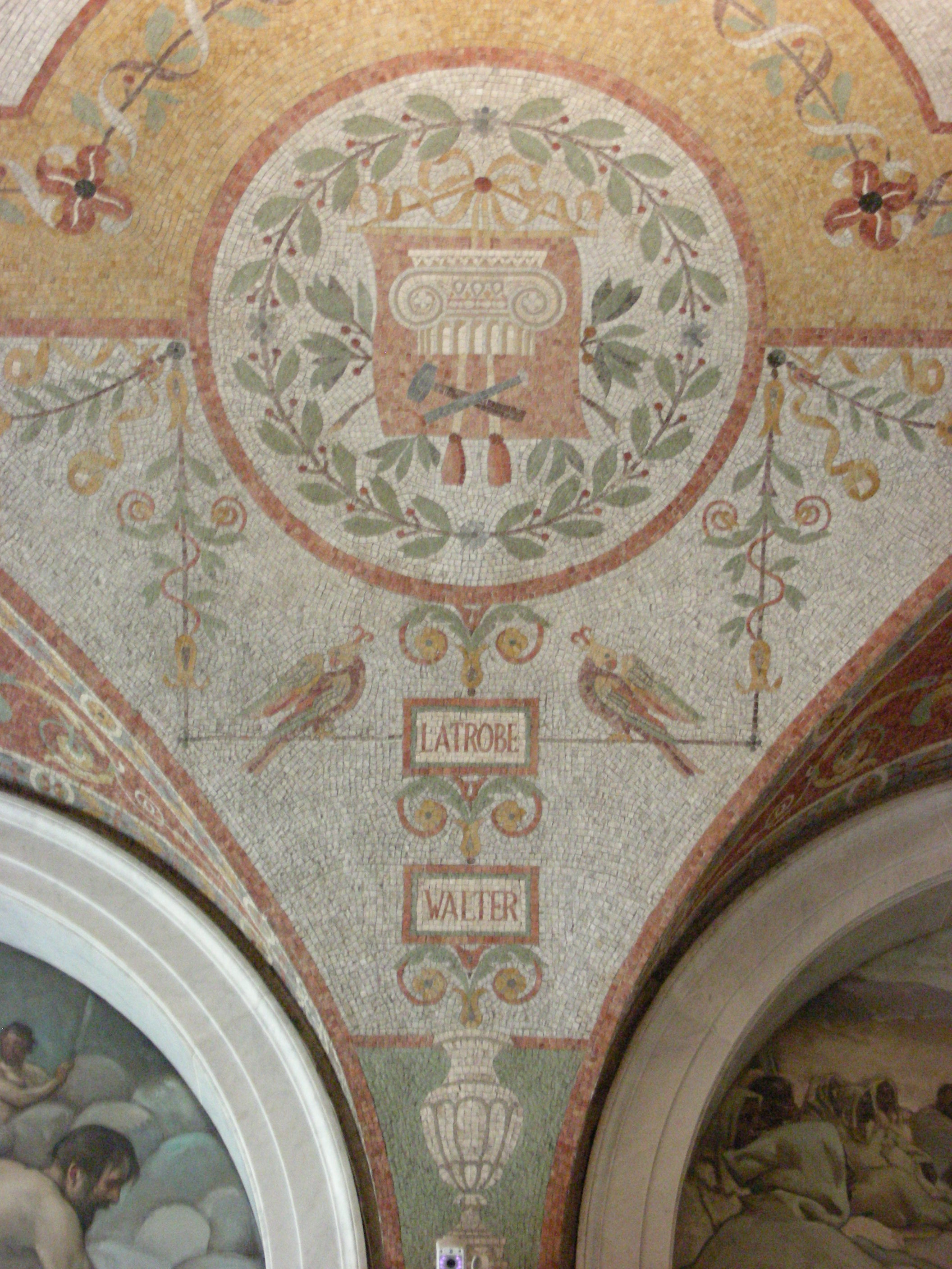 Mosaic in ceiling of Library of Congress, Washington, DC, USA honoring Benjamin Henry Latrobe and Thomas Ustick Walter